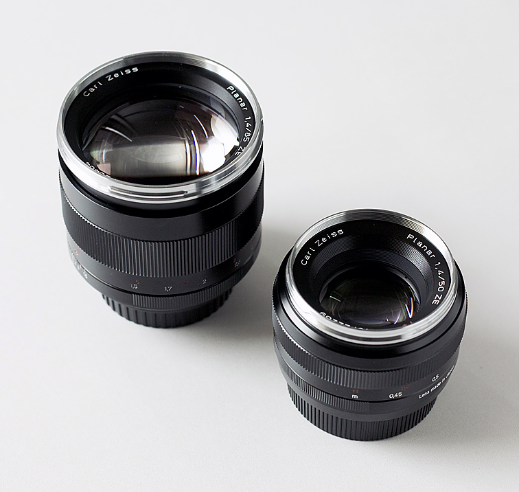 Carl Zeiss Planar f1.4/50mm ZE and f1.4/85mm ZE lenses